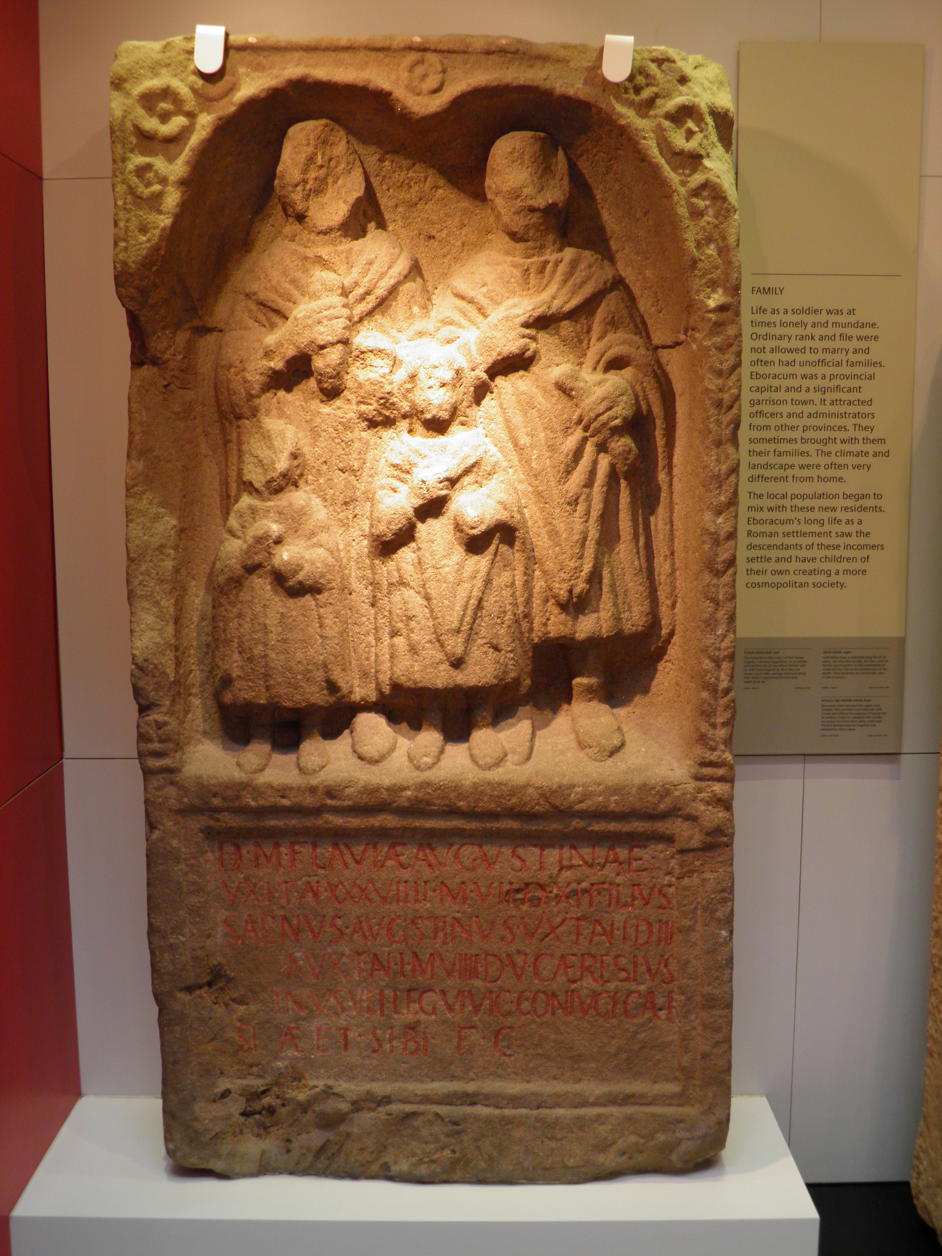 Yorkshire Museum, York (Eboracum)